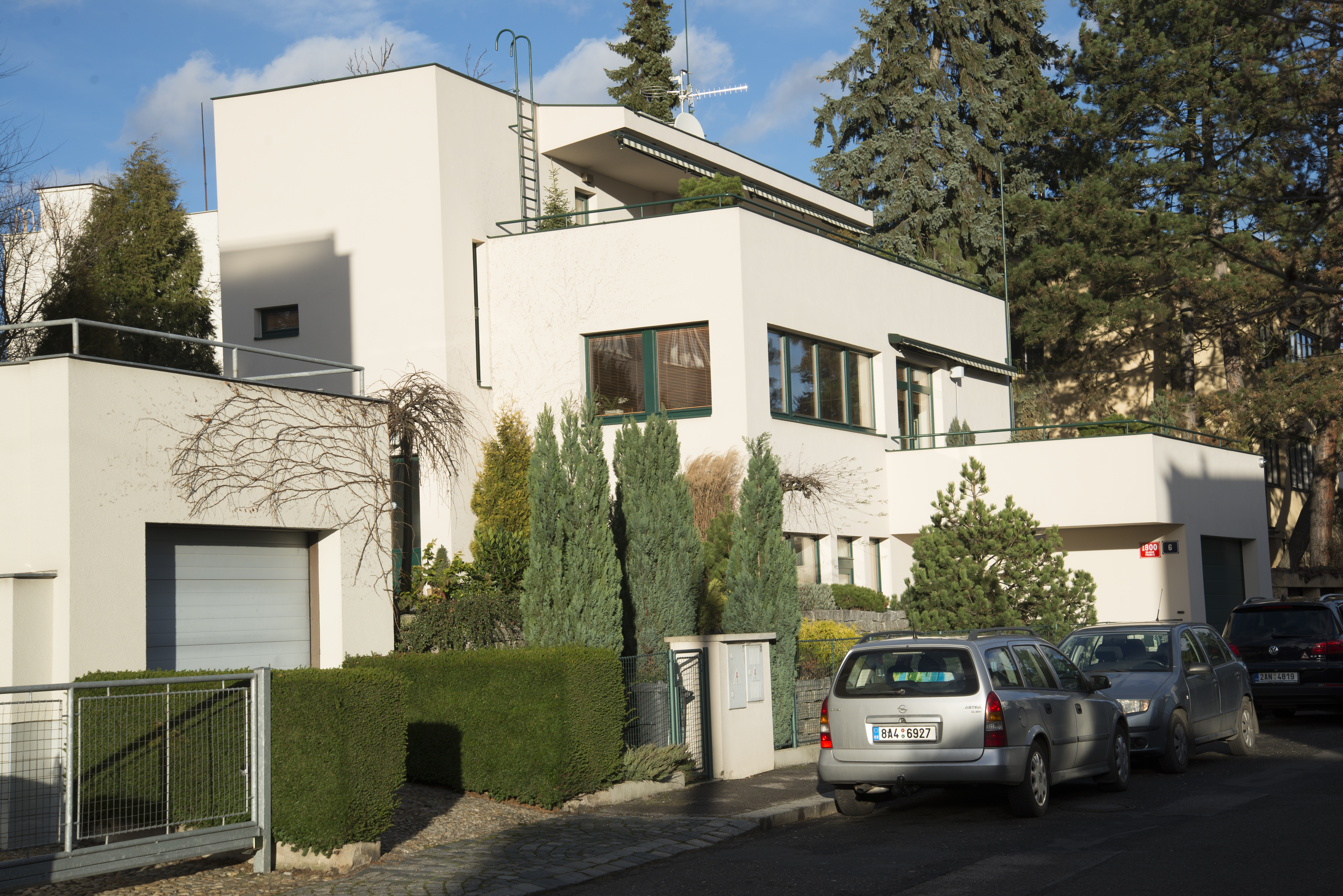 Osada Baba (Baba Functionalism colony in Prague) - House Lindová